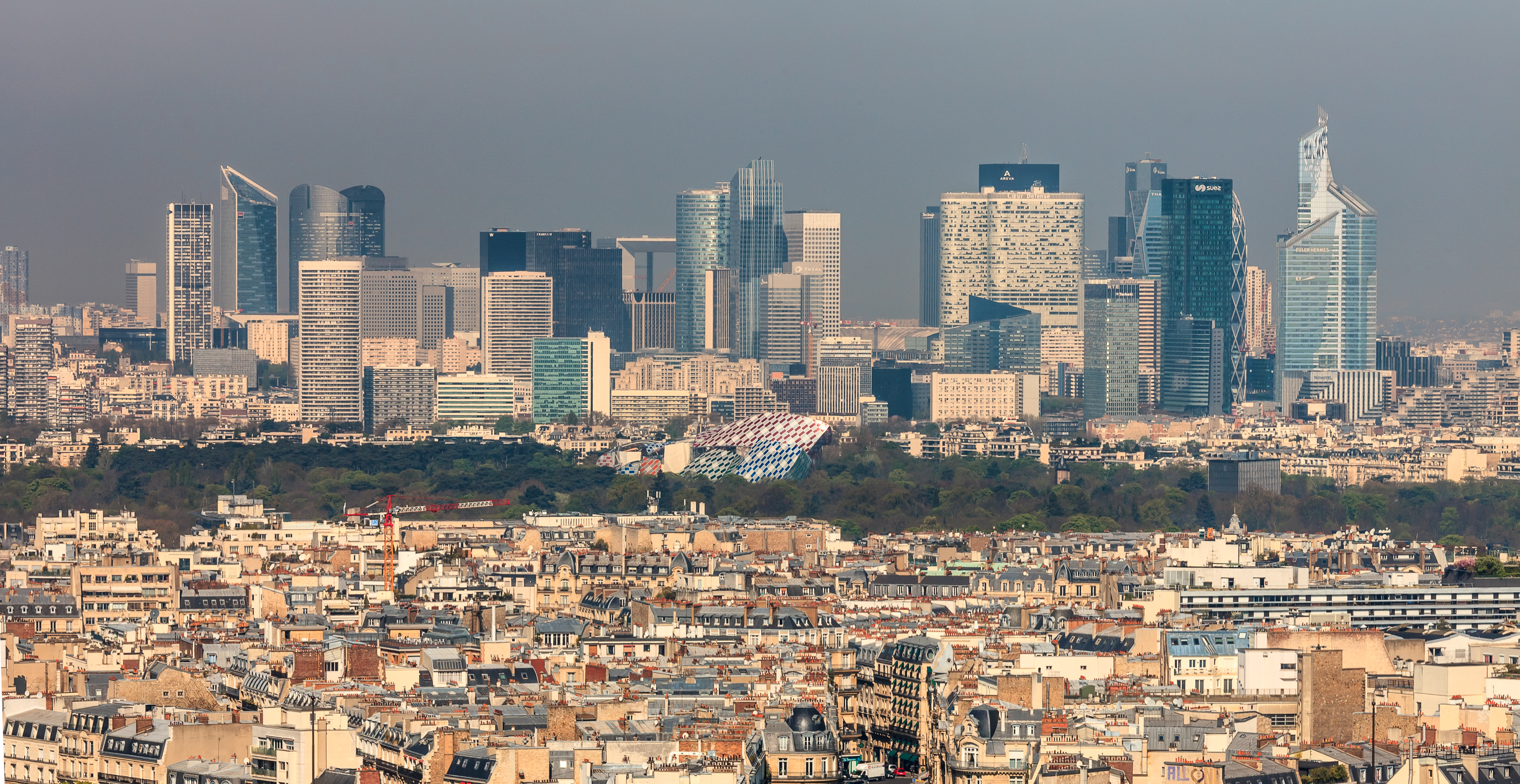 View of buildings in Paris